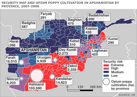 Map of Afghanistan showing the security situation by district and opium cultivation by province in the period 2007 to 2008.